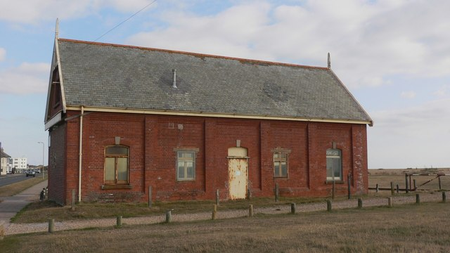 This old building is used by Army Cadets